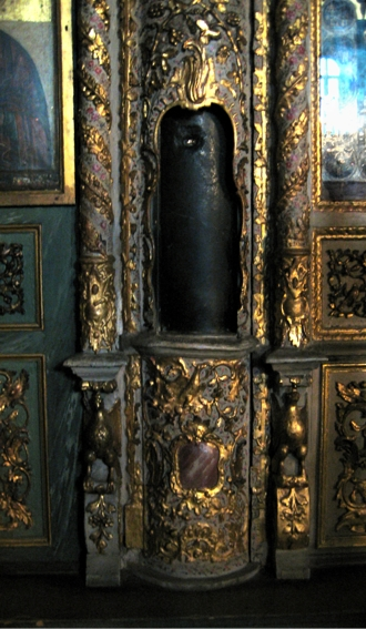 Photo of Arma Christi: The fragment of pillar (or column) where Jesus was whipped, in the episode of the Flagellation in the wall of Hagios Georgios (Patriarchate) Church, Istambul, south side of iconostasis